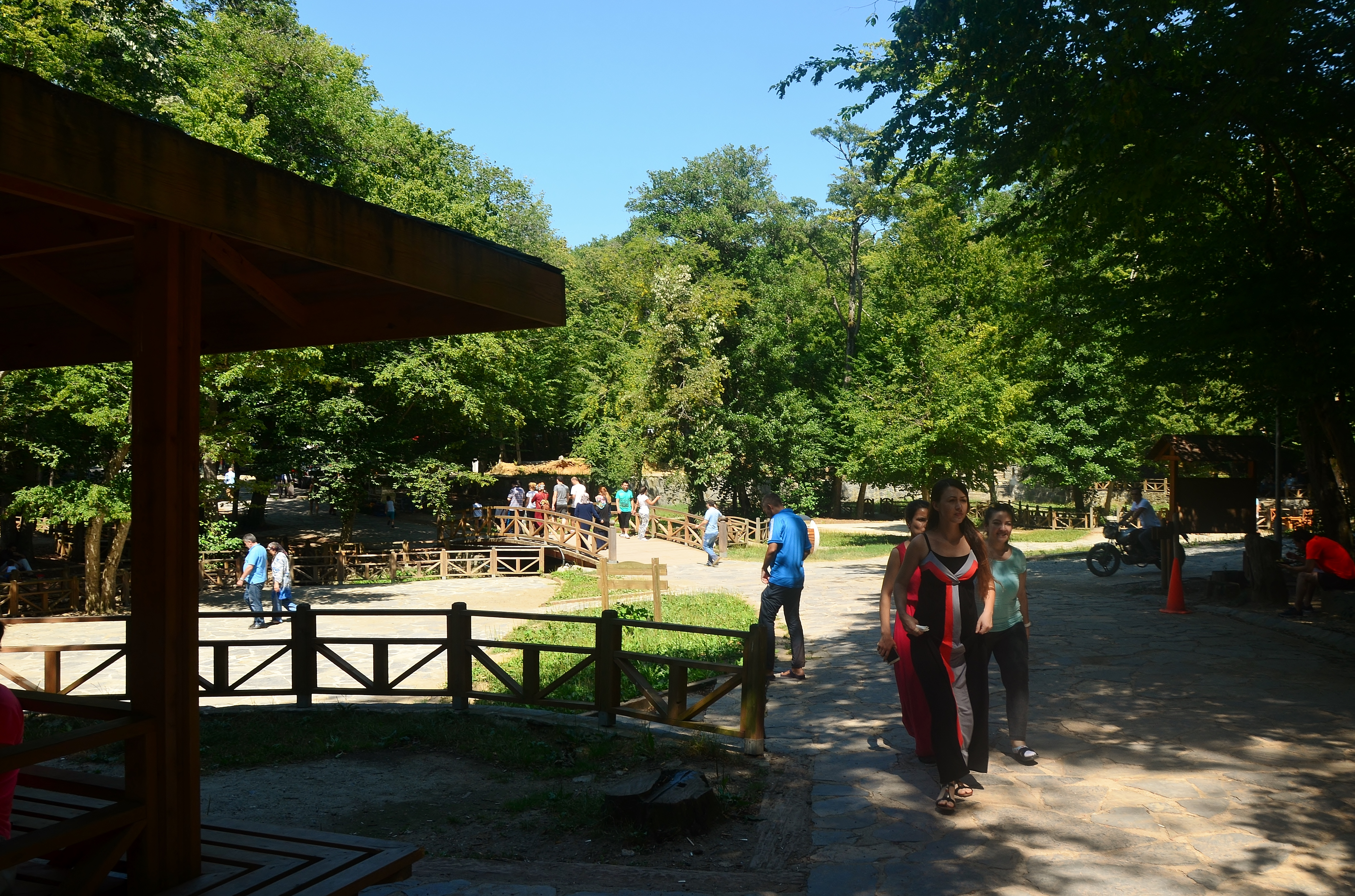 Neşetsuyu Nature Park inside the Belgrad Forest in Sarıyer, Istanbul, Turkey